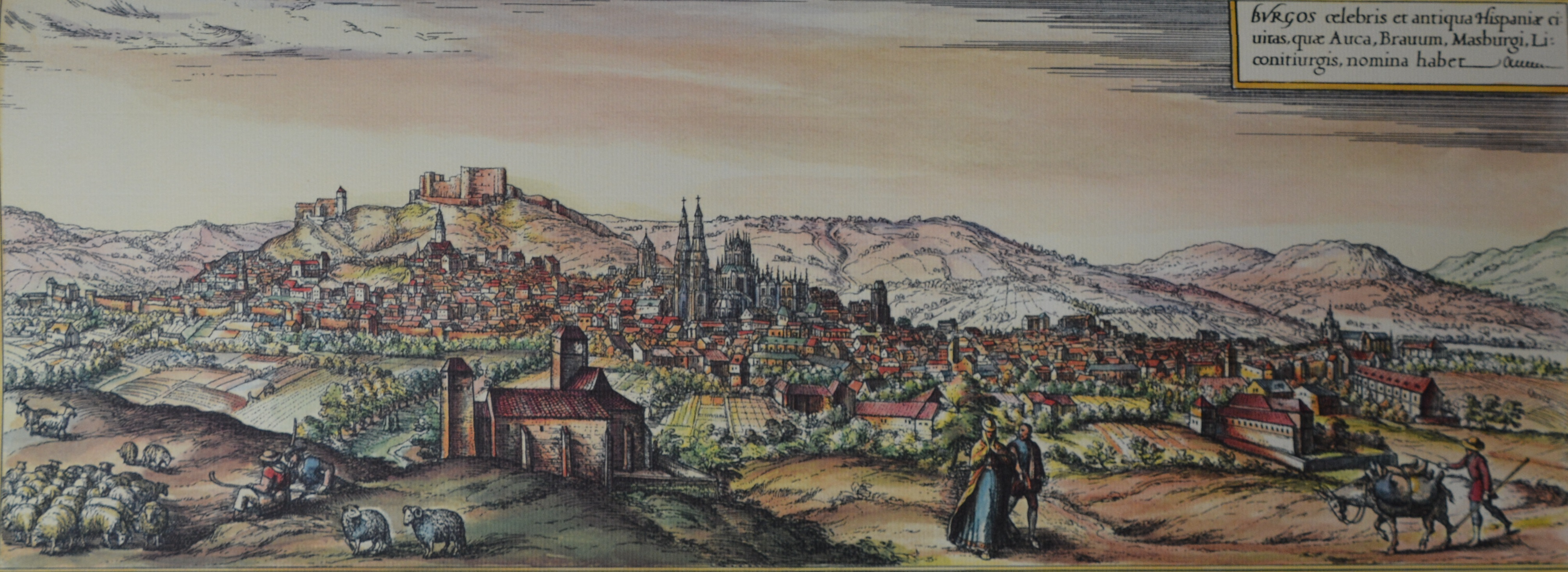 Burgos in Georg Braun; Frans Hogenberg: Civitates Orbis Terrarum, 1572